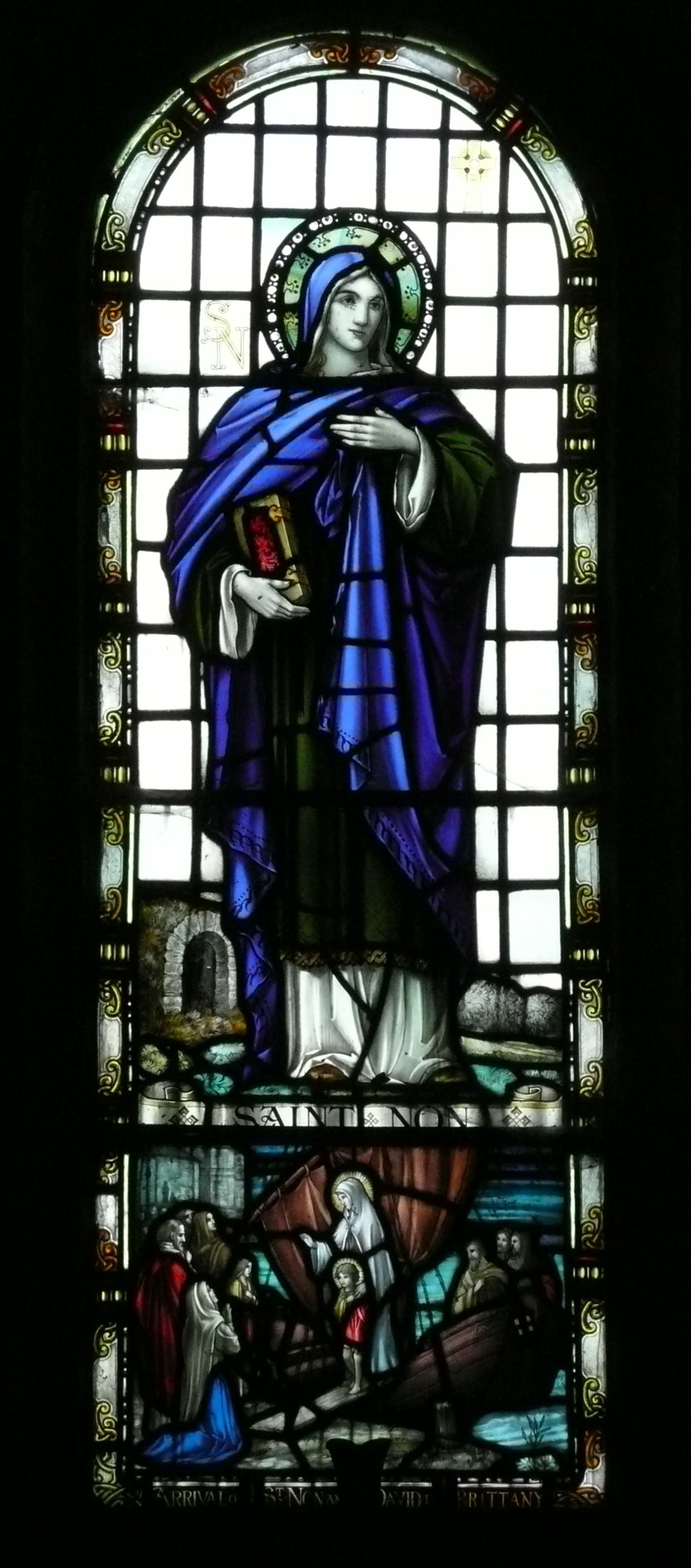 St Non stained glass window in St Nons Chapel